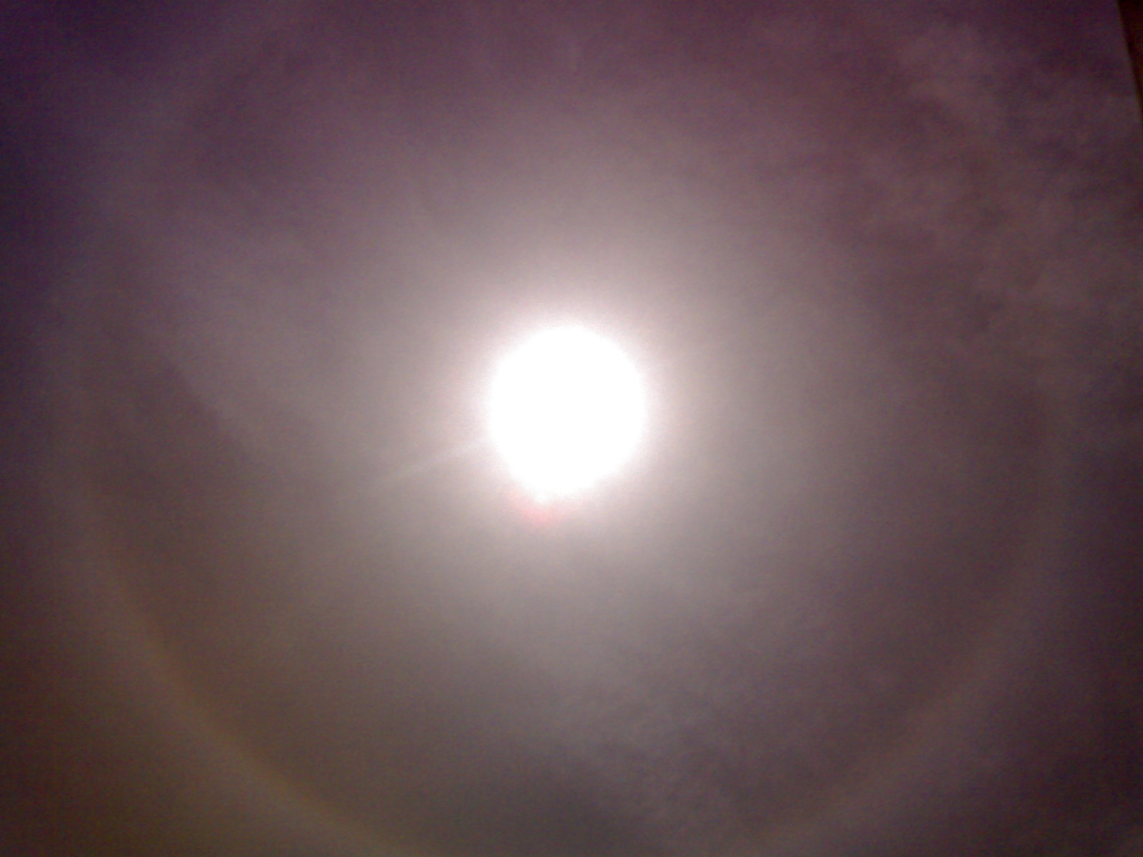 This 22° halo was observed around the sun, around 11:30 am at Chennai, on July 09 ,2009.